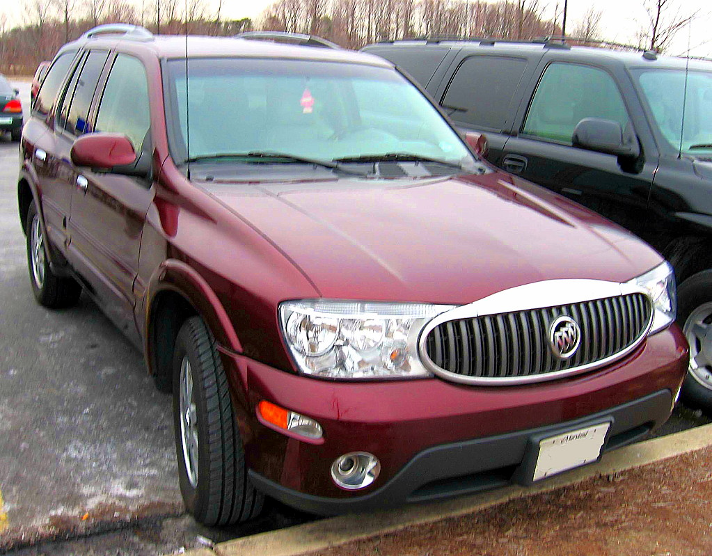 2004-2007 Buick Ranier photographed in USA.